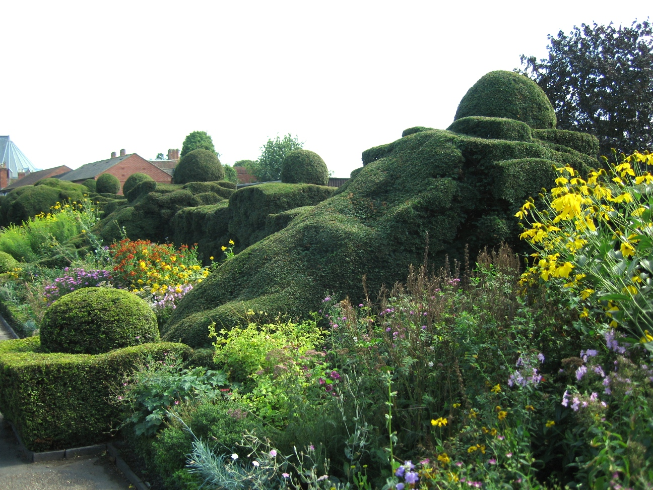 Great Garden, New Place, Stratford-upon-Avon, England.